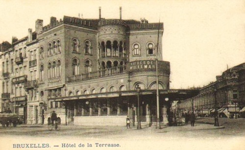 Hôtel Terrasse on Boulevard du Midi 2 in Brussels, designed by Henri Rieck in 1880 in "style mauresque". Postcard Lagaert